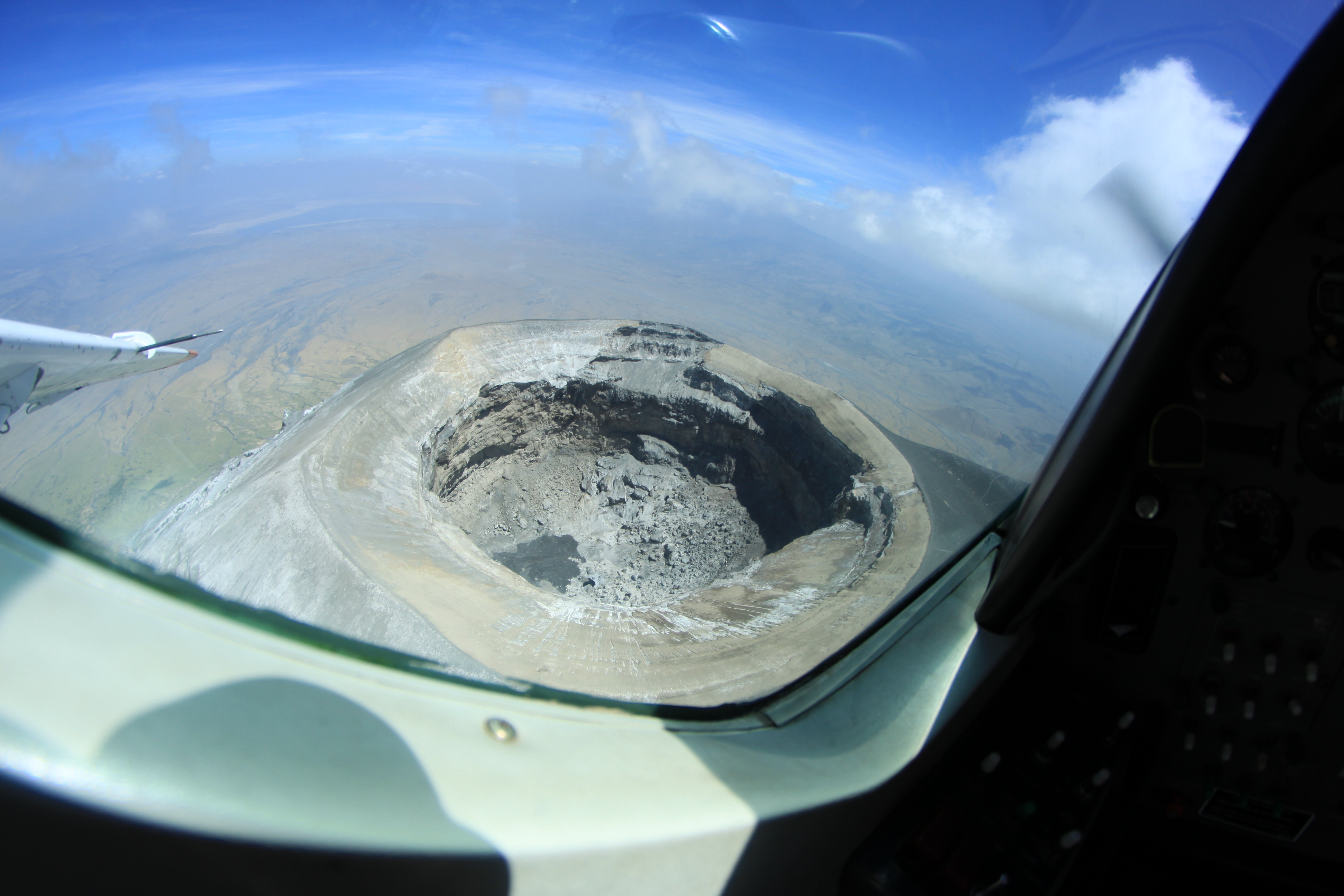 Flying over Oldoinyo Lengai. Taken with a fisheye photo looking toward the north-east